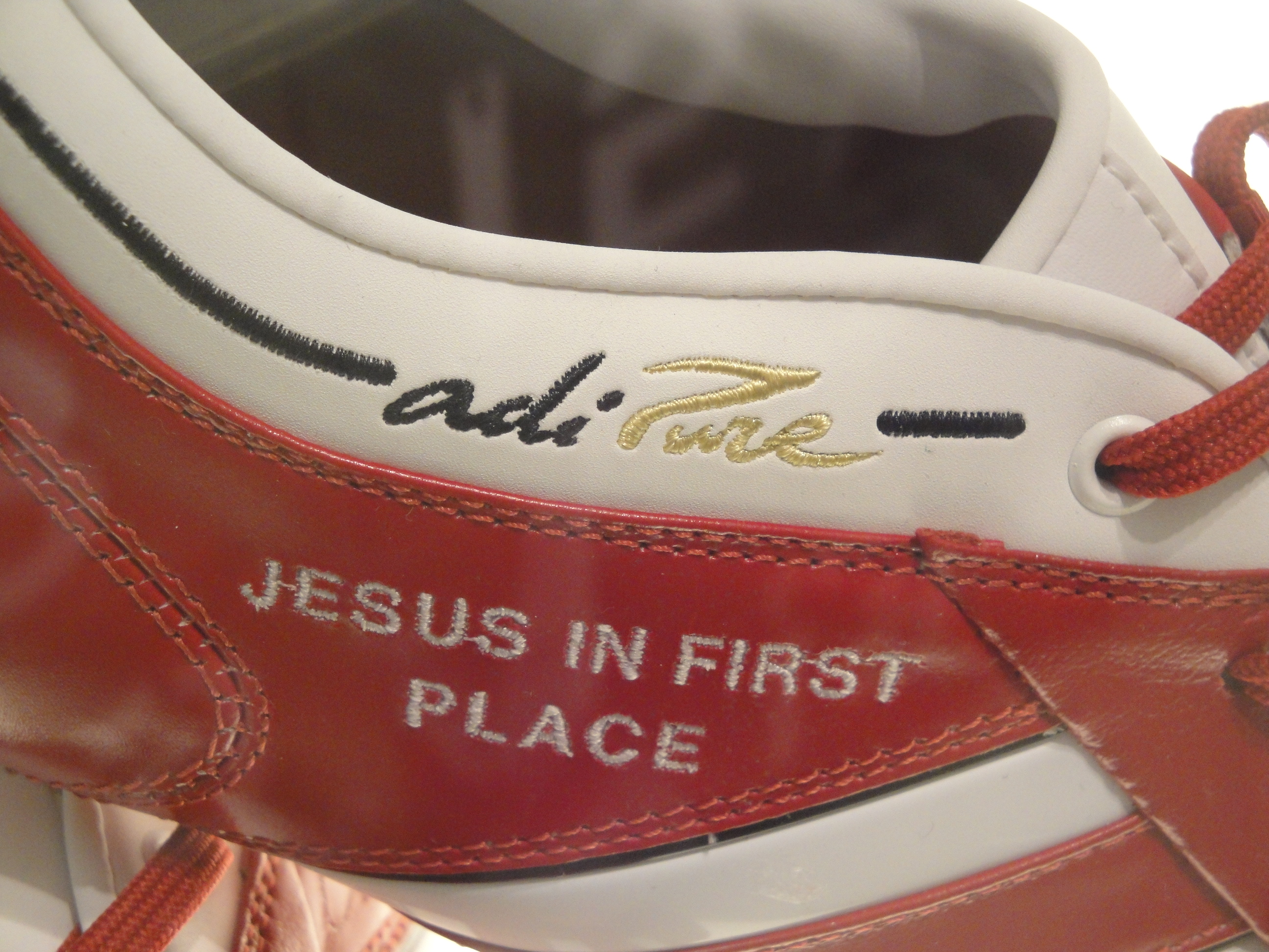 Kaká's boots at Real Madrid's museum